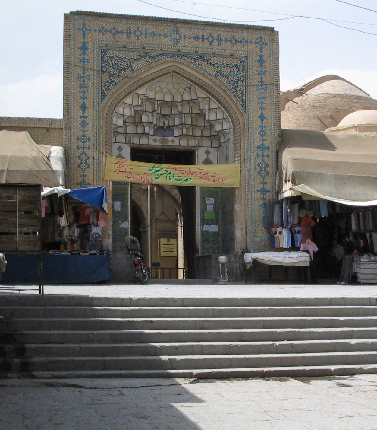 Entrance of Masjed-e Jomeh, Isfahan, Iran.